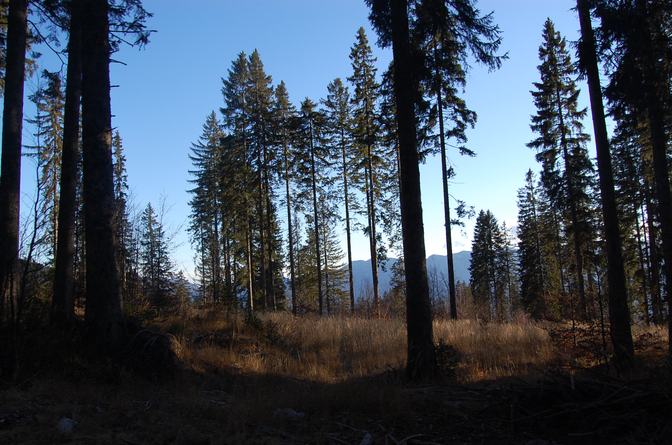 View from Pokljuka plateau near biathlon center